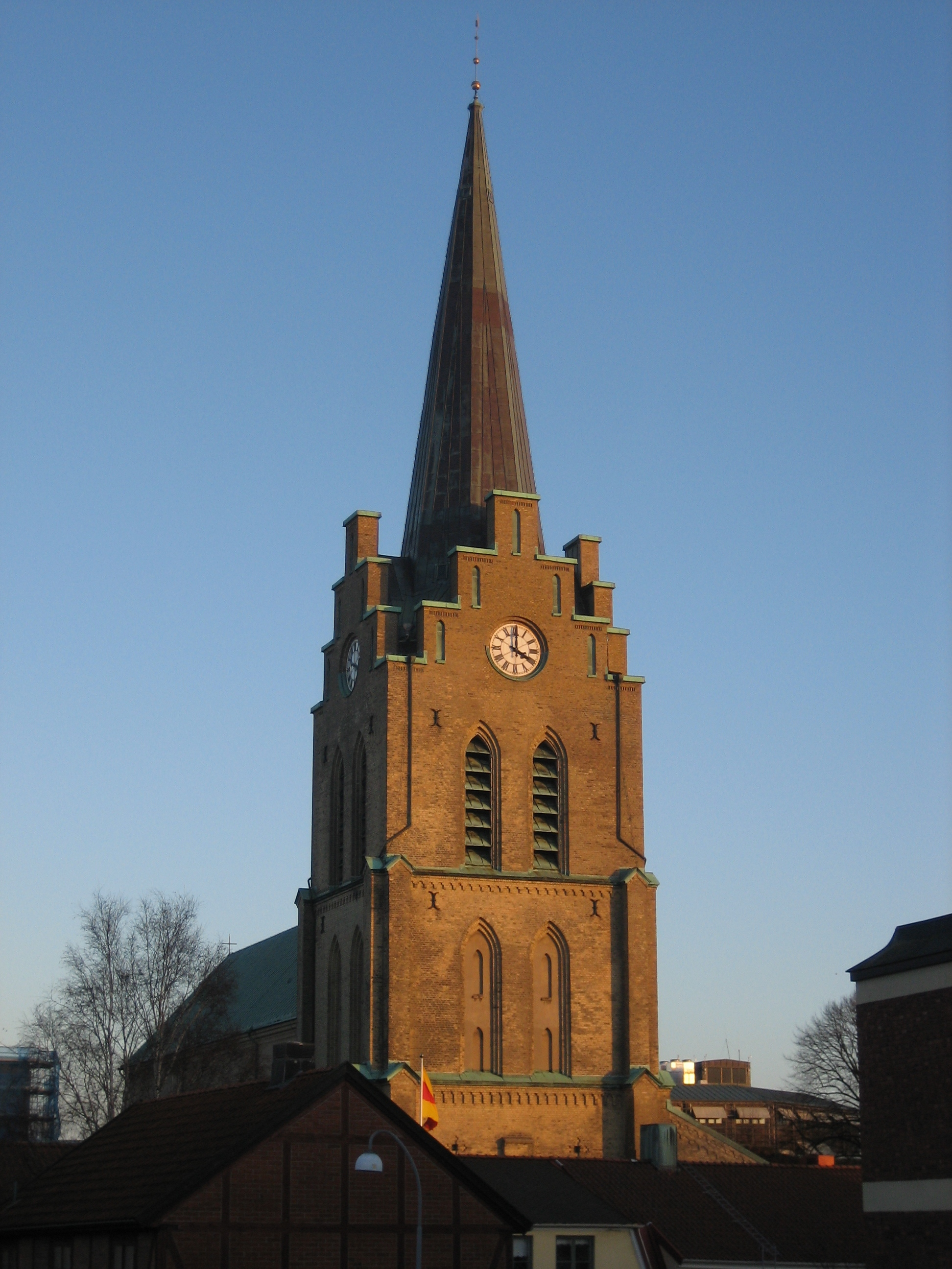 The tower at S:t Nikolai chirch in central Halmstad.